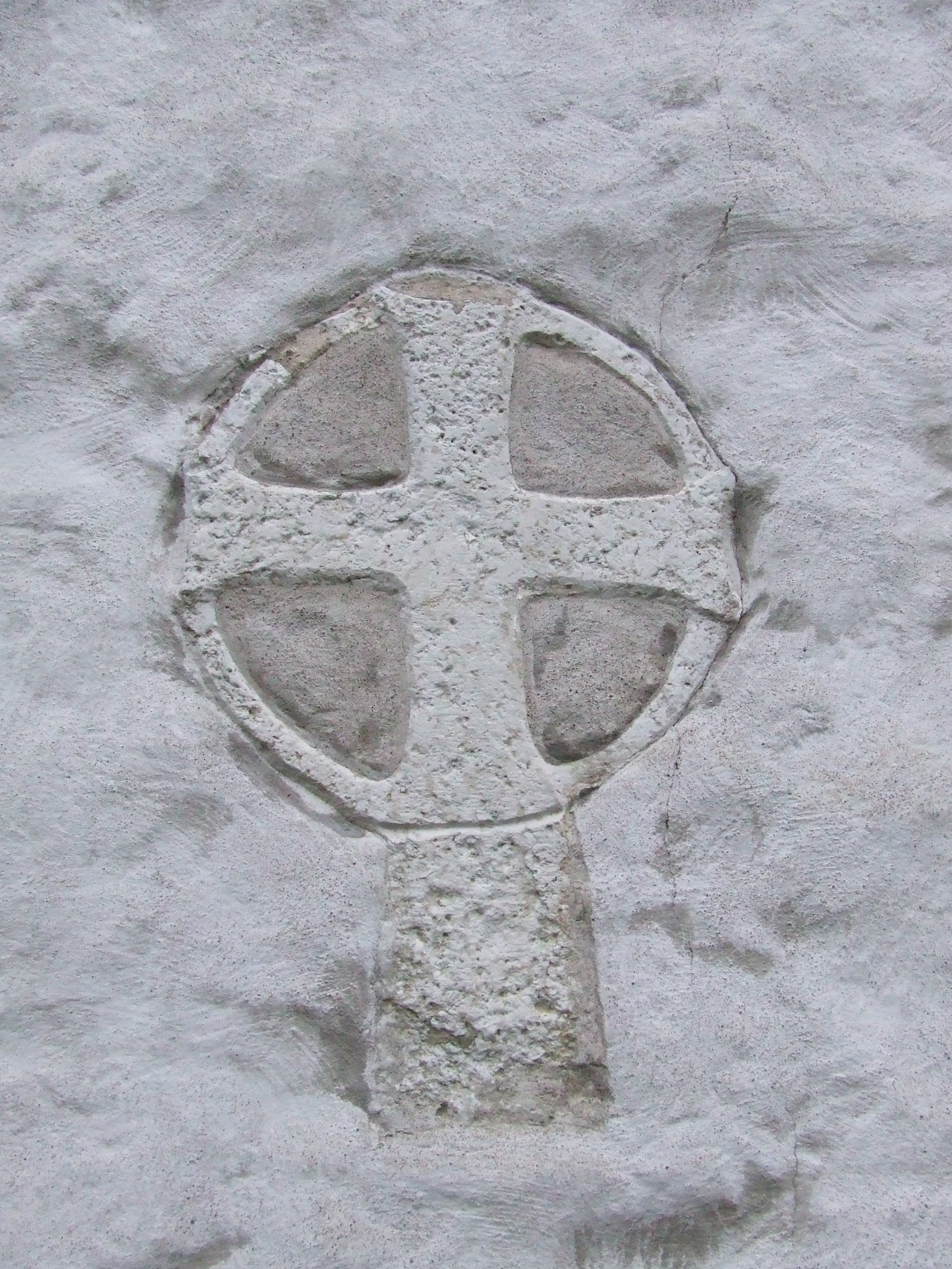 The consecration cross of the Saint Mary Church in Hamina, Finland.